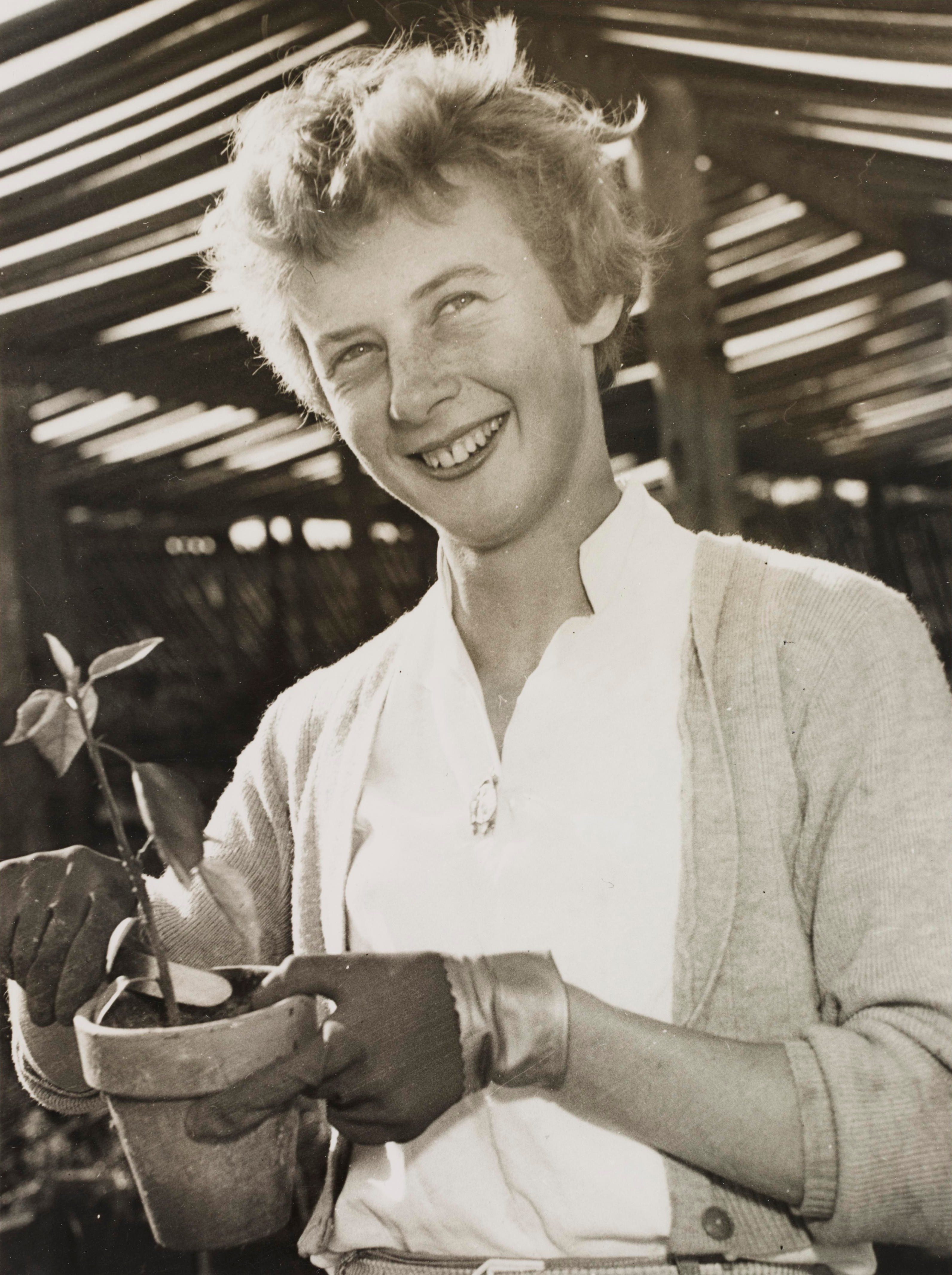 Betty Cuthbert, c. 1950s, by Ted Hood. Note: Three Olympic gold medals, Melbourne, 1956 and one gold, Tokyo, 1964